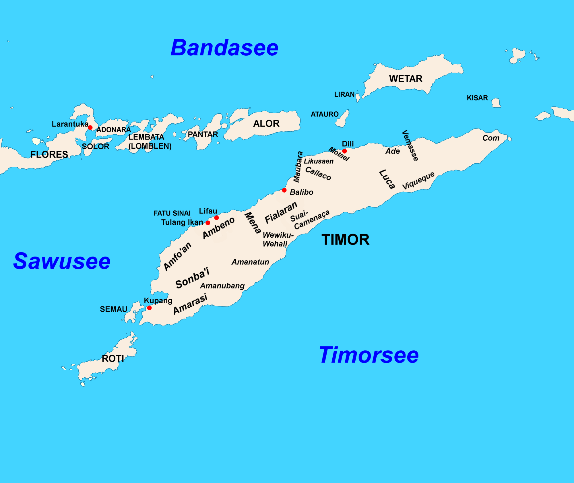 Timor in 17th and 18th century